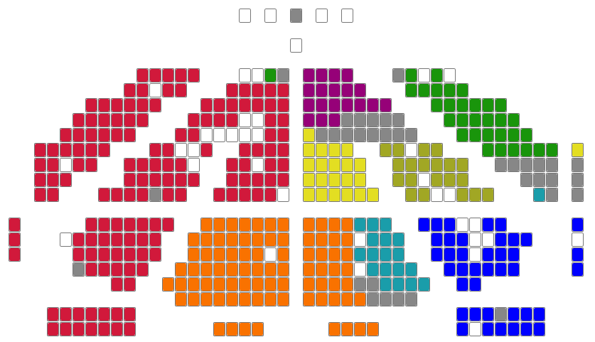 Arrangement of Parliamentary groups in the hall of the Verkhovna Rada of Ukraine on 8th convocation - Petro Poroshenko Bloc - People's Front - Opposition Bloc - Self Reliance - Radical Party of Oleh Lyashko - People's Will - All-Ukrainian Union "Fatherland" - Economic Development - Other